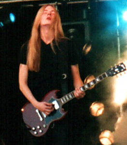 Keyboardist Jussi-Mikko "Juska" Salminen" and Mikko "Linde" Lindfors of the Finnish rock band HIM playing at the Provinssirock festival in June 1999.